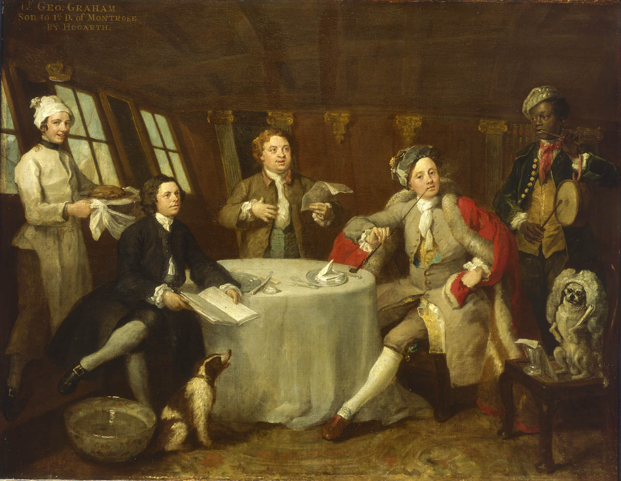 Captain Lord George Graham, 1715-47, in his Cabin. Probably shows the subject in the cabin of his new command, the 66-gun HMS Nottingham. Graham is seen seated, in full length view, to the right of the table, smoking a long handled pipe. His clerk and chaplain sing, to music played by a black servant boy on a drum and fife. A steward brings a fowl to the table, but while looking out at the viewer with a smile, tips gravy down the back of the chaplain's neck. Two dogs are visible. One, Graham's dog, joins in the singing. Hogarth's own pug dog, Trump, sits up on a chair, wearing Hogarth's wig and holding a scroll, and reads from a sheet of music in front of him propped on a wineglass. The picture is inscribed in the top left corner 'Ld Geo. Graham, Son to 1st D. of Montrose, by Hogarth'